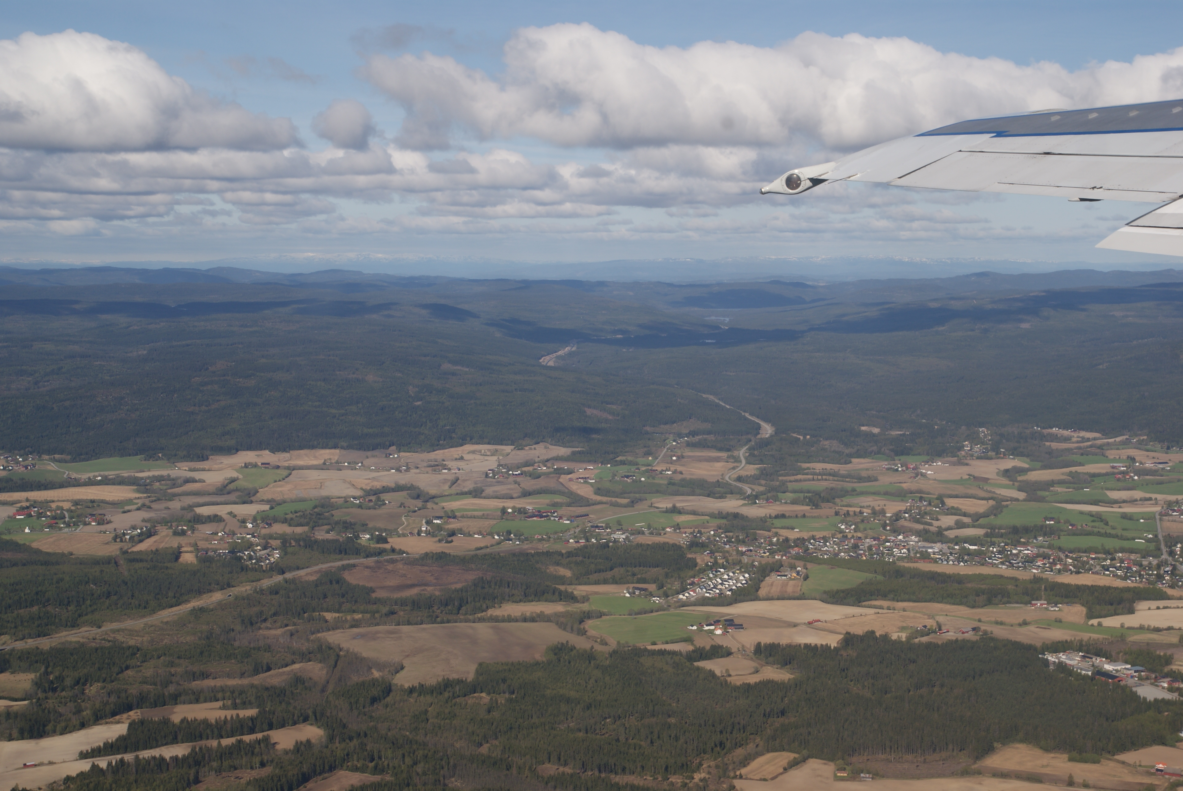 View of Maura, Nannestad, Norway.